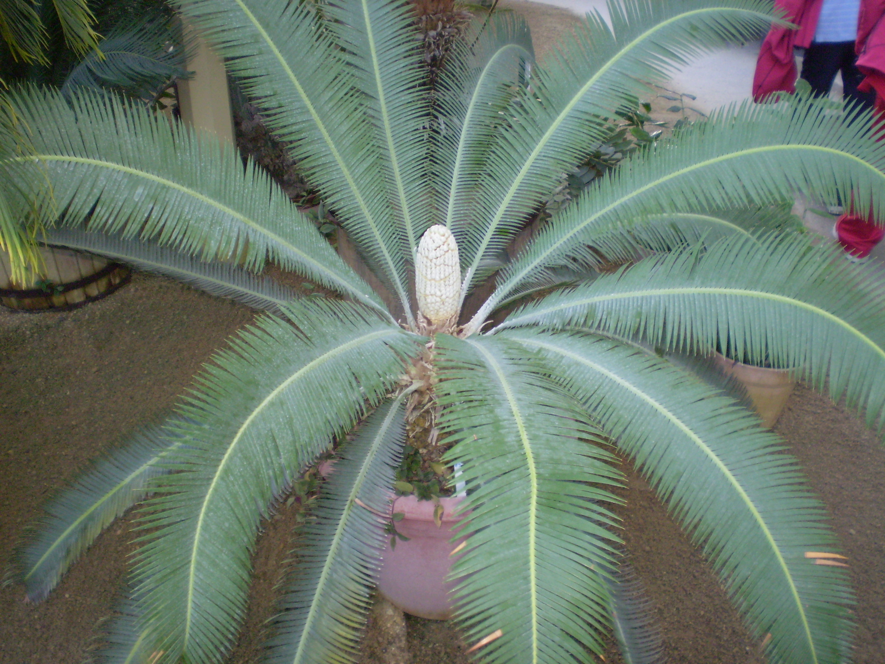 Male Dioon edule in Lednice greenhouse